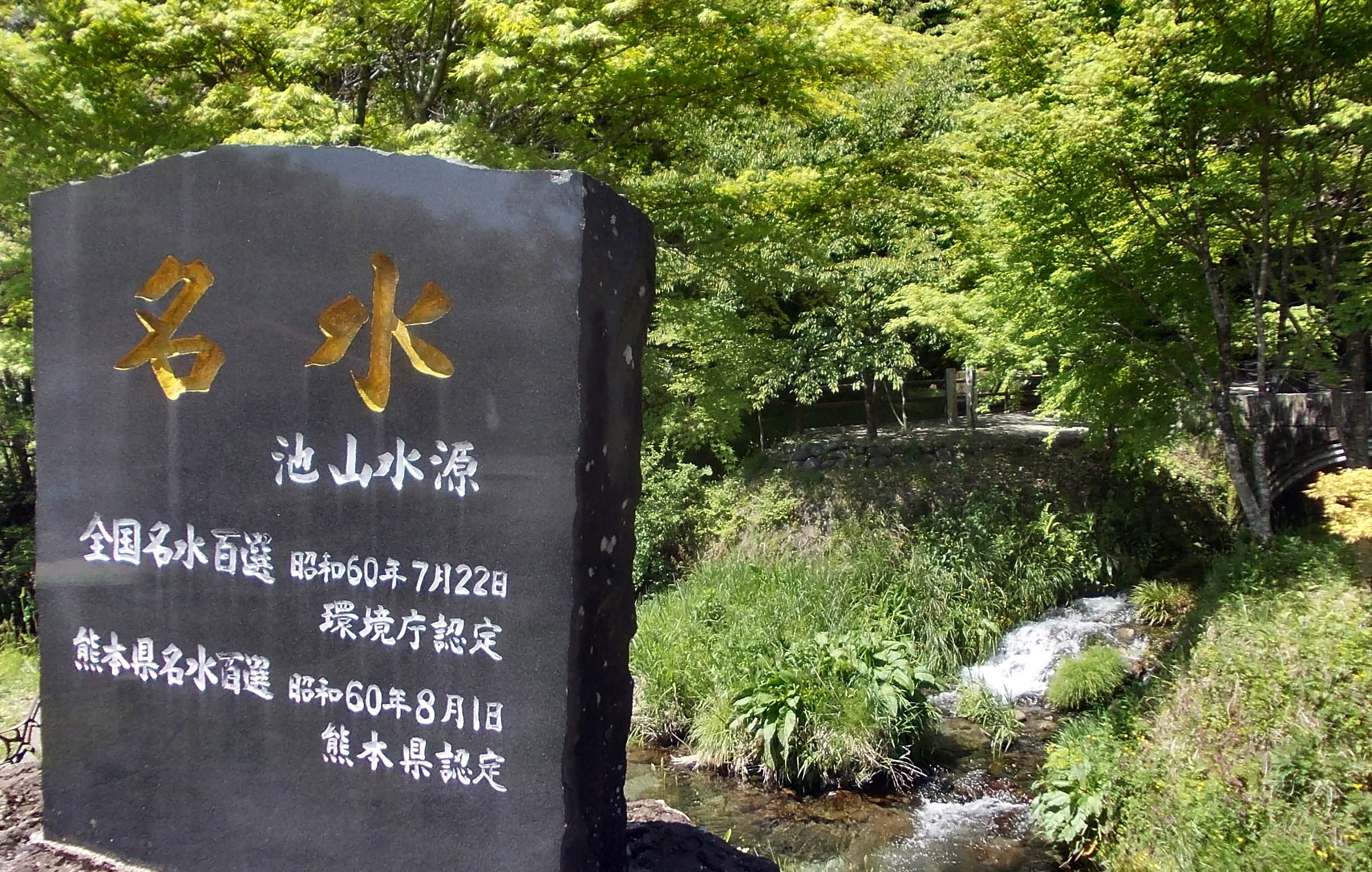 Monument for the best 100 water in Japan is standing at the entrance of Ikeyama Suigen (Spring Source) which is designated both by the Ministry of the Environment and Kumamoto prefecture in 1985.